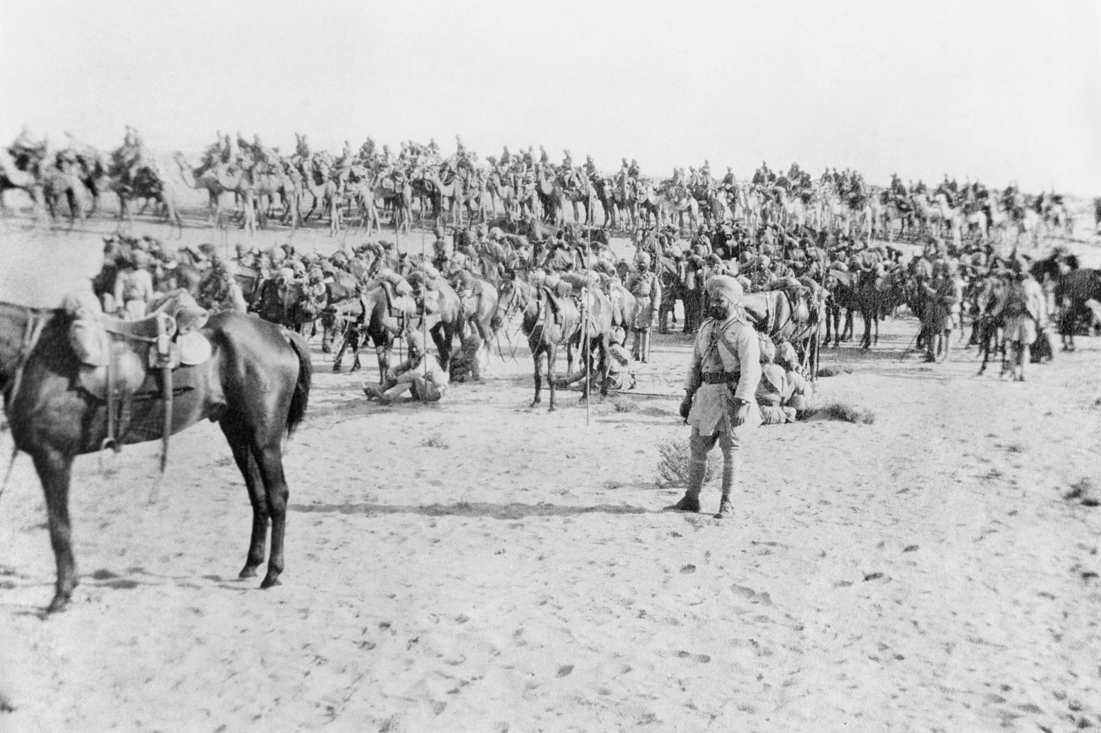 Ministry of Information First World War Official Collection Egyptian Campaign. Mysore and Bengal Lancers with Bikanir Camel Corps in the Sinai Desert. 1915.